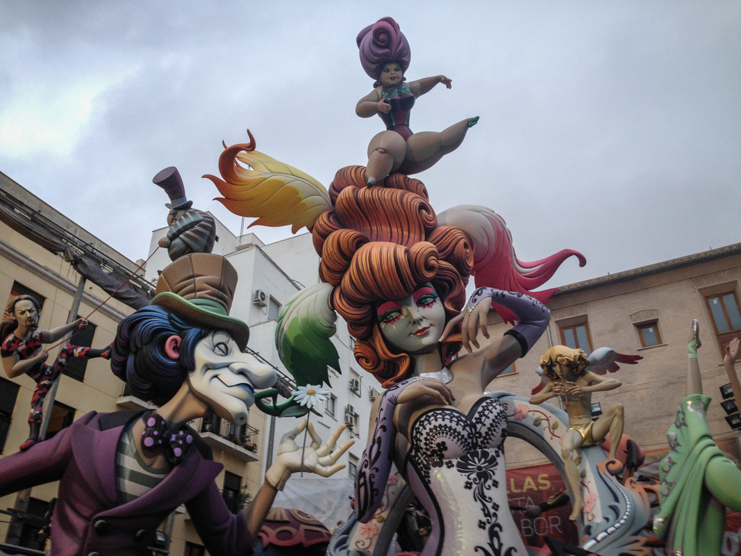 Fallas 2015, Valencia